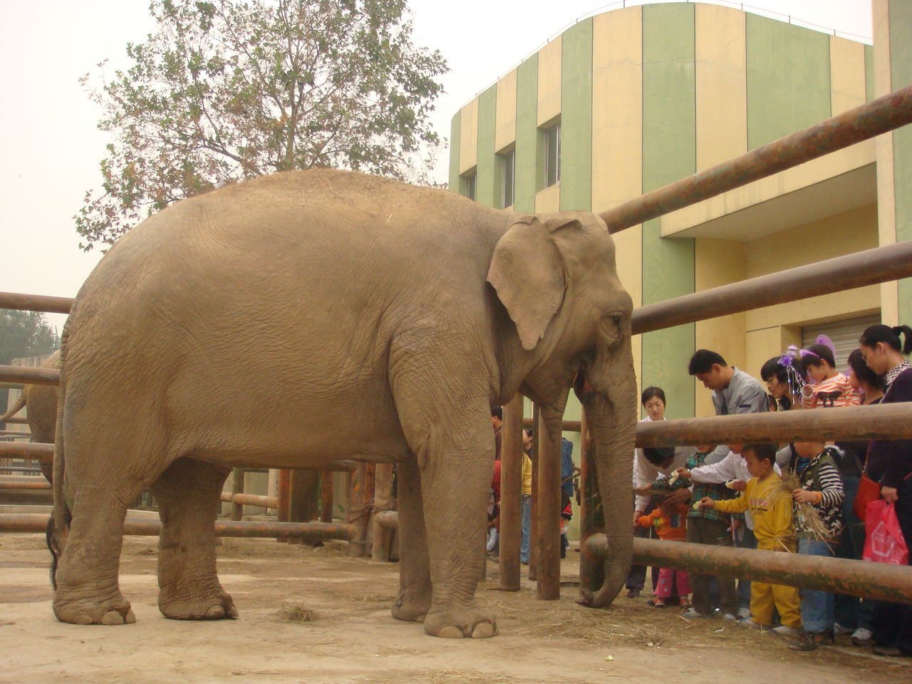 ELEPHANT